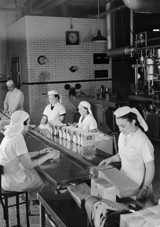 Title: [Women working, Borden Company, York Ice Machinery Company] Creator: Richie, Robert Yarnall (1908-1984) Date: December 6, 1938 Part Of: Robert Yarnall Richie photographs Physical Description: 1 negative: film, black and white; 18 x 13 cm. File: ag1982_0234_1921_01_sm_opt.jpg Rights: Please cite Southern Methodist University, Central University Libraries, DeGolyer Library when using this image file. A high-quality version of this file may be obtained for a fee by contacting . For more information, see: View the Robert Yarnall Richie Photographs at